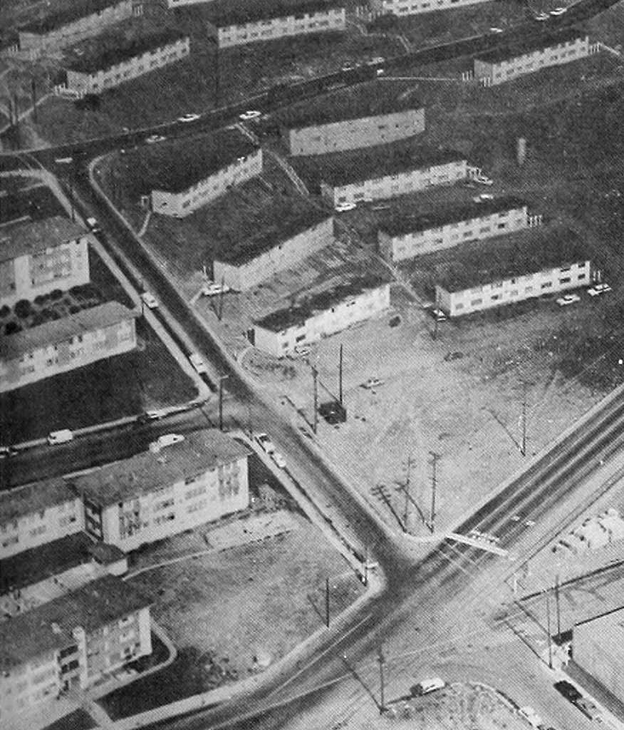 Page 139 from the "128 Hours" report.